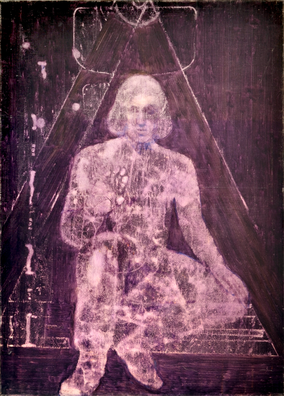 Rudolf Němec, Sitting figure (1976), oil, printing pigment, canvas